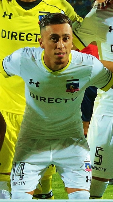 Martín Vladimir Rodríguez Torrejon